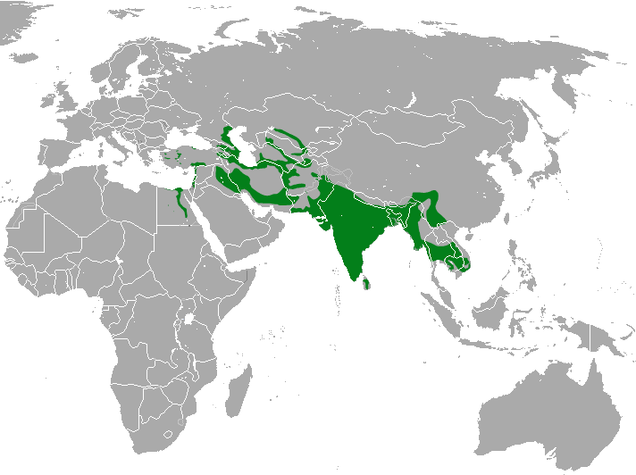 Jungle Cat (Felis chaus) range